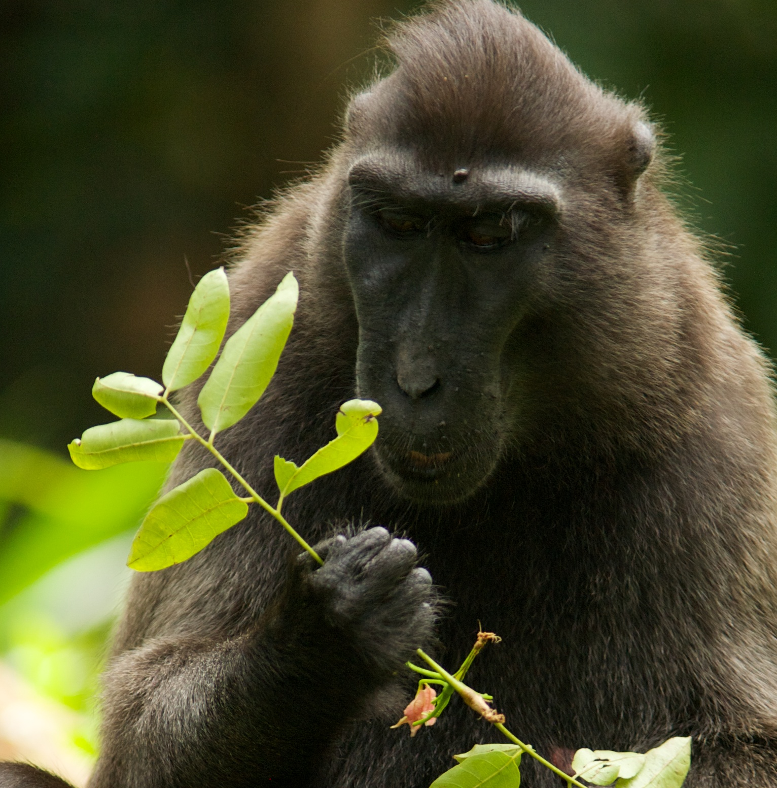 celebes crested macaque Needs additional description